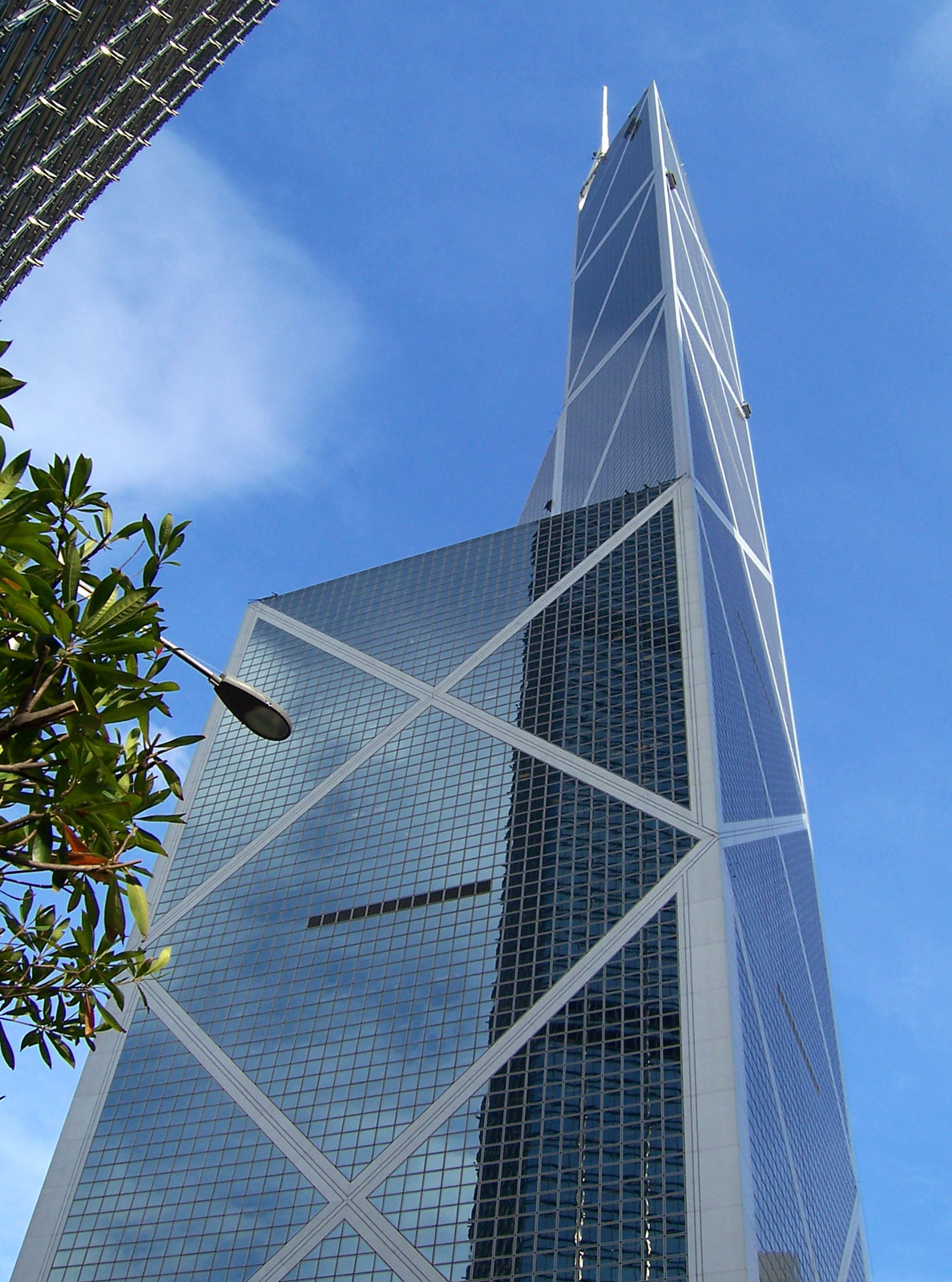 Bank of China Tower Taken by Enoch Lau on 29 December 2005. As a courtesy, please let me know if you alter this image or this image description page. Original filename was 100_0832.JPG.